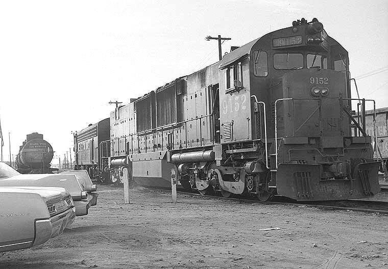 An ALCO DH643, Southern Pacific #9152 (formerly #9020). My image.